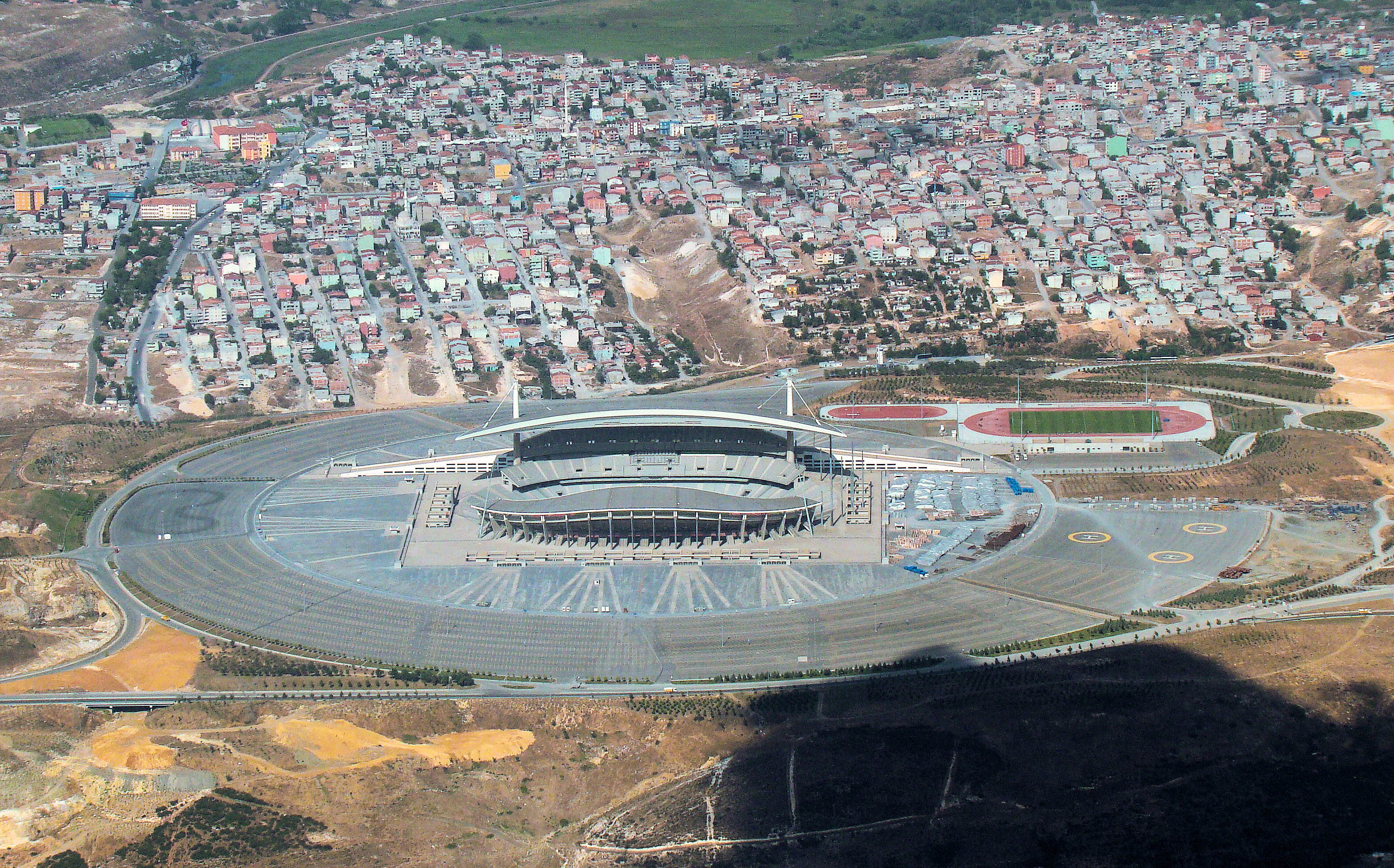 Atatürk Olympic Stadium/Atatürk Olimpiyat Stadı photographed from a north-bound passenger plane shortly after take-off from Atatürk International Airport. Construction of the stadium was completed in 2002, with room for 75,486 people to sit, lots of cars to park and at least three helicopters to land.